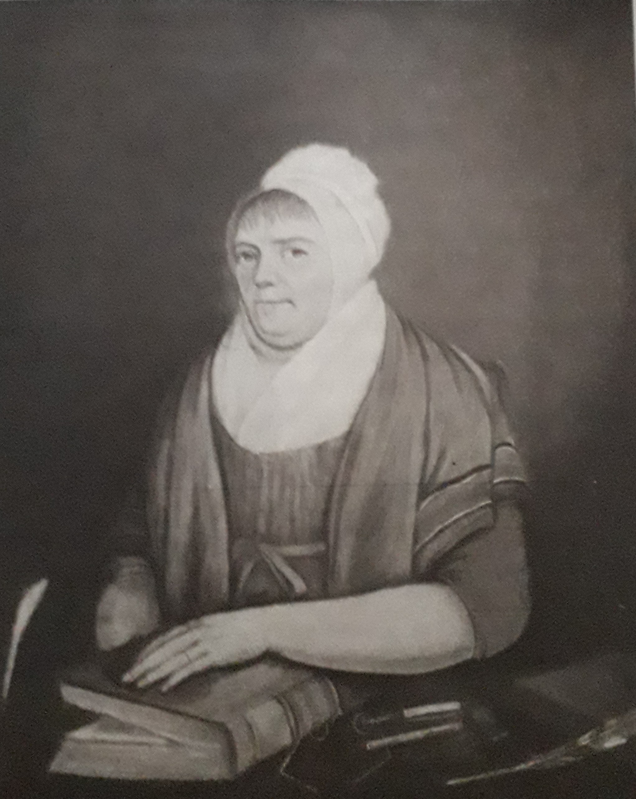 copy of a painting, artist and location unknown, of Elizabeth "Betty" Beecroft 1748-1812 painted around 1790